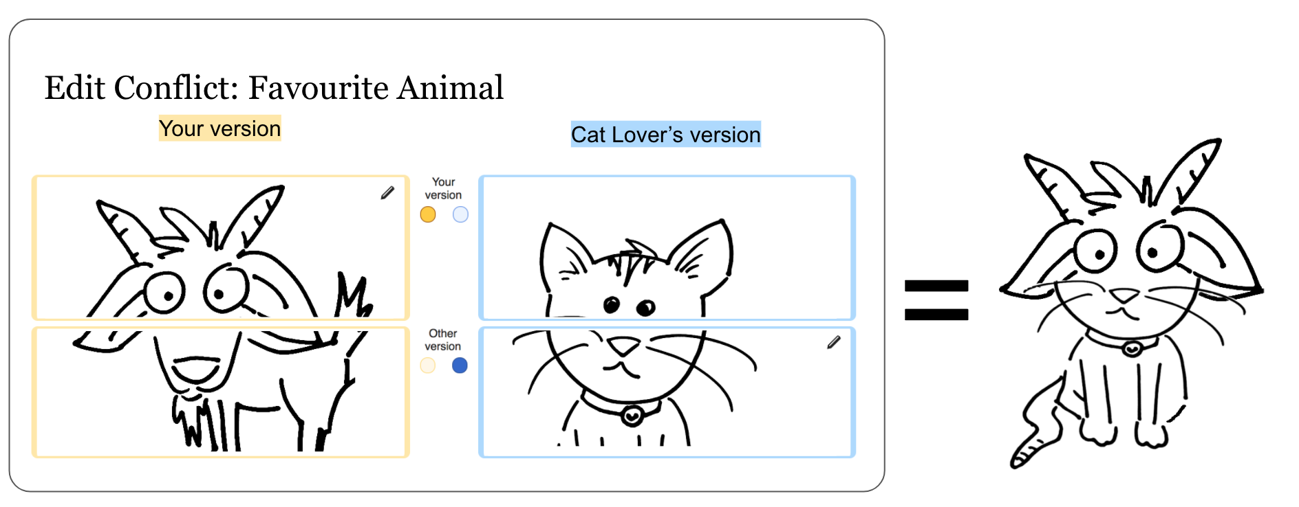 How the new approach for the edit conflict interface works in the world of cats and goats